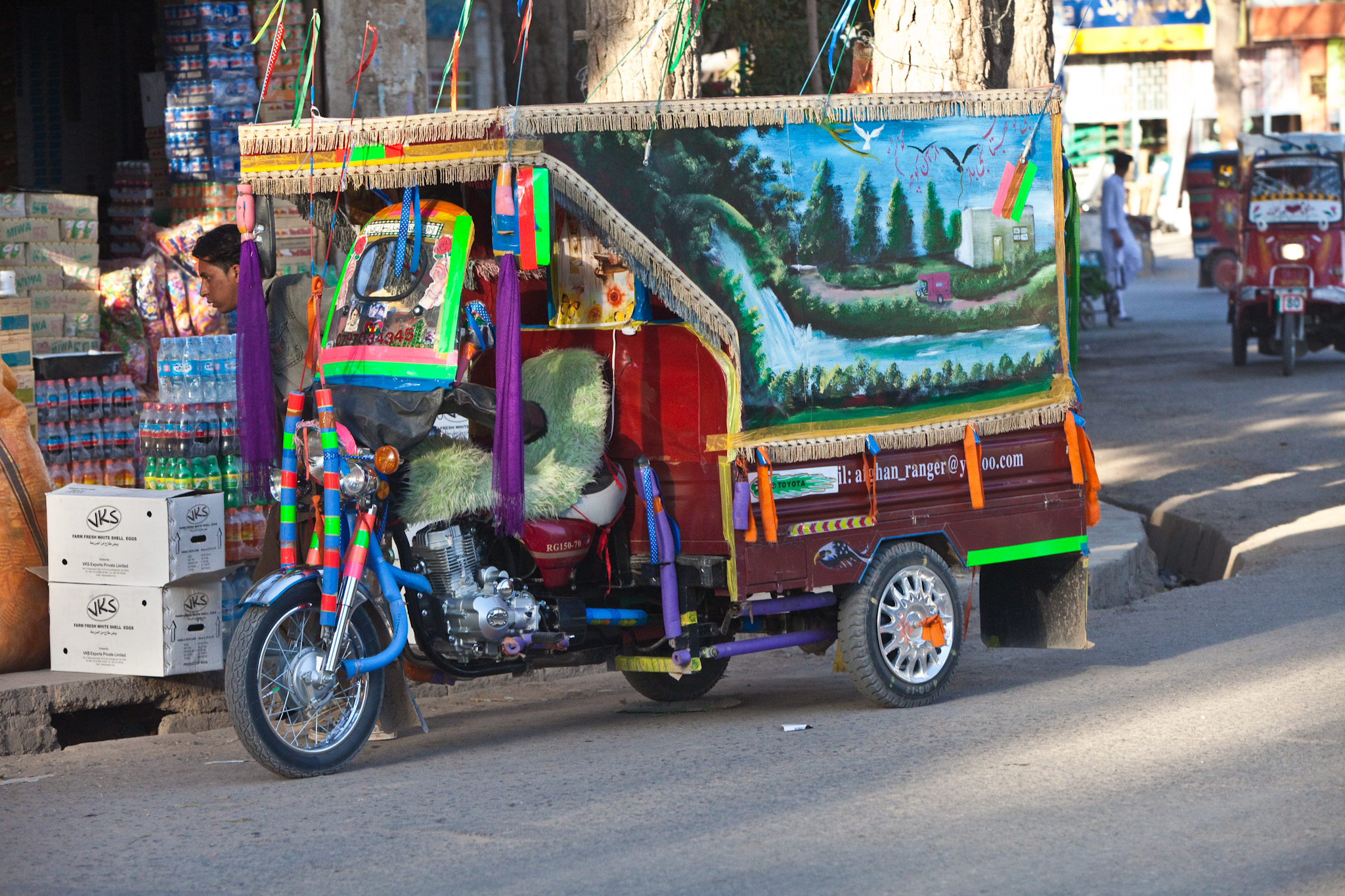 Herat